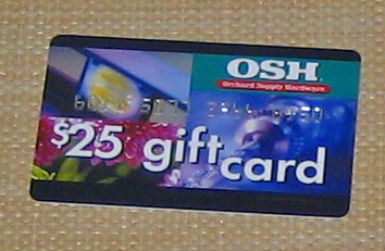 $25 gift card for Orchard Supply Hardware